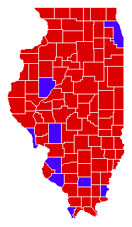 Results by county, 2002, for State Treasurer of Illinois